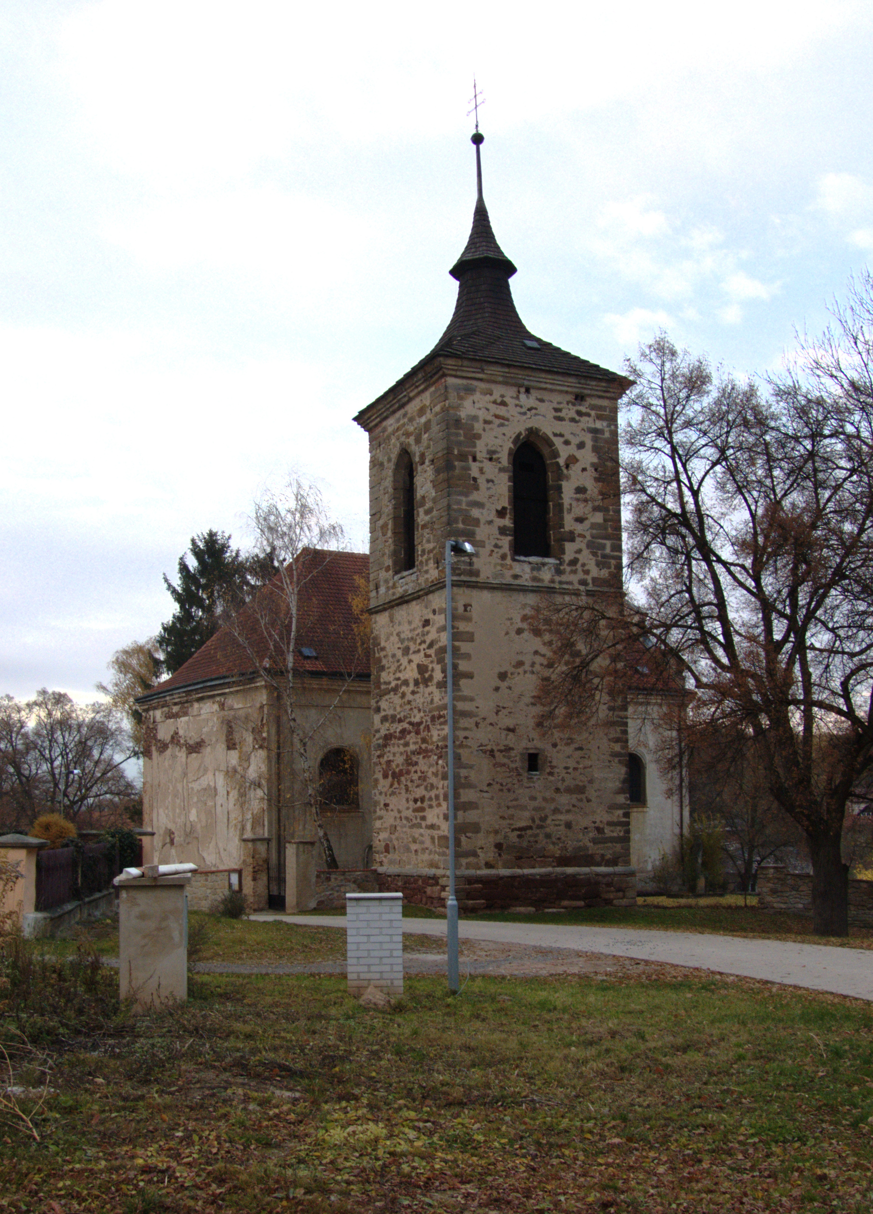 Village of Přistoupim in Kolín District, CZ - local bell tower